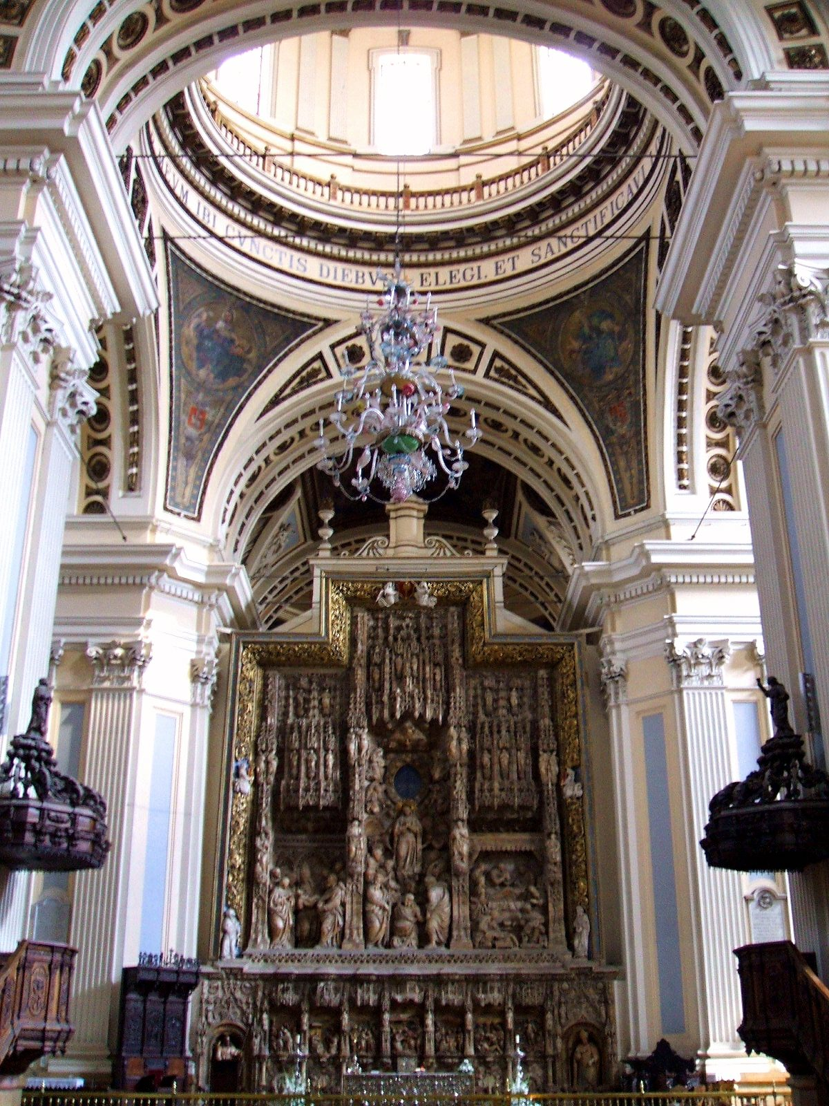 basílica del Pilar (Zaragoza)